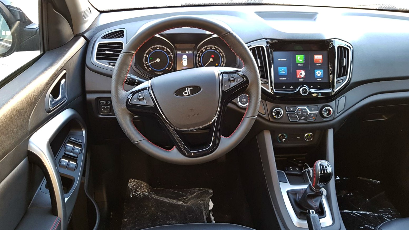 DR 6 1.5 Turbo LPG Interior